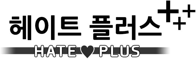 Logo for the video game Hate Plus.